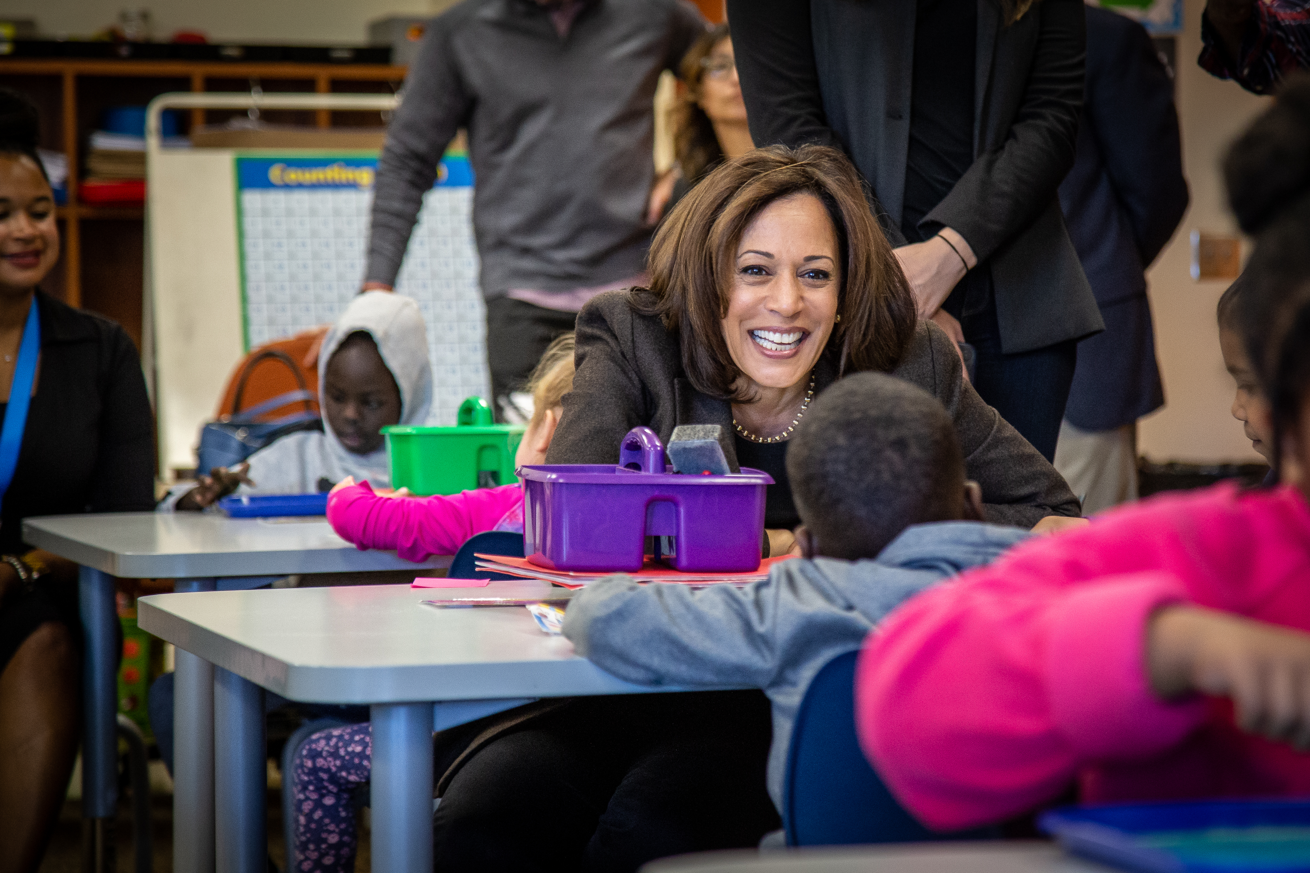 U.S. Senator and presidential candidate Kamala Harris paid a visit to King Elementary School in Des Moines. While there she spent time with a kindergarten class as the were learning the sounds and shapes of letters, and met with teachers and staff.